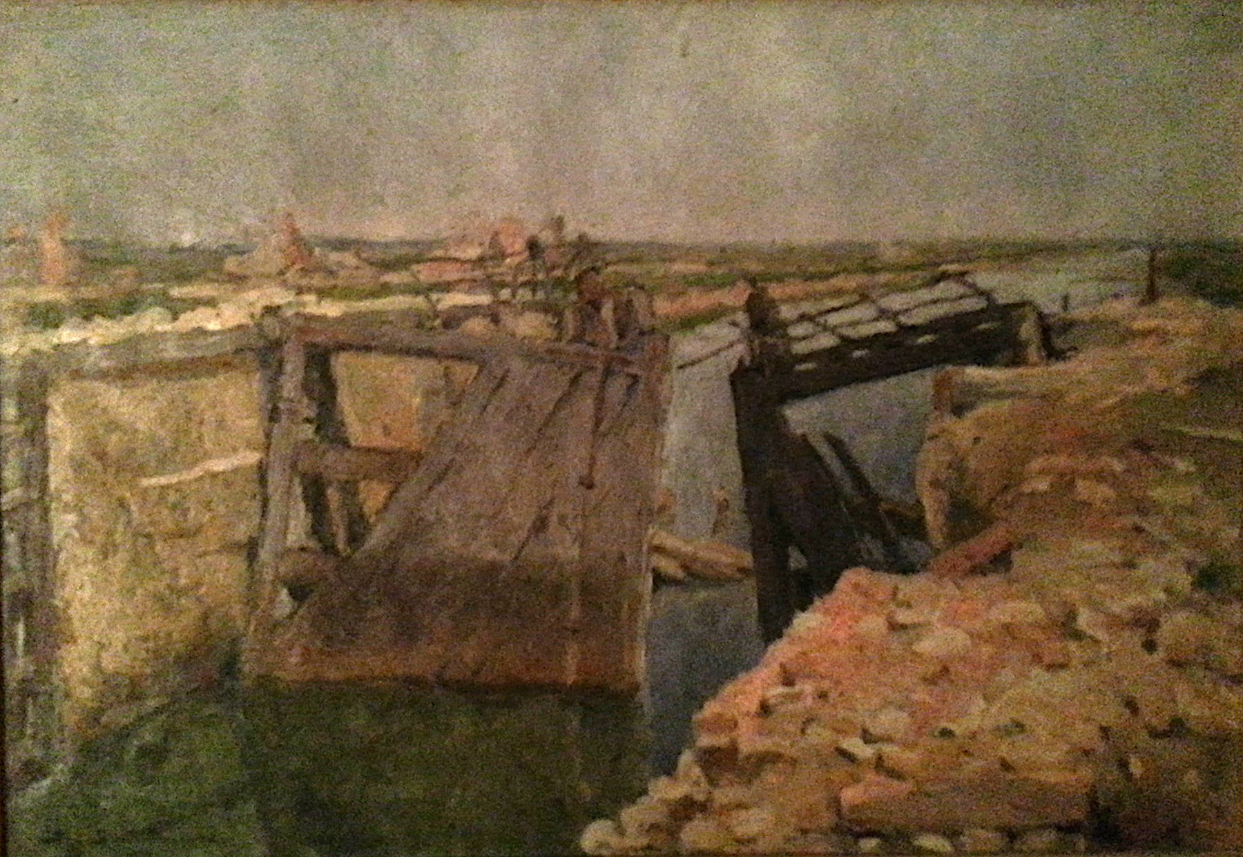 Broken dyke (lock) on the Yser, painted in 1919 by Belgian painter Jef Dutilleux.